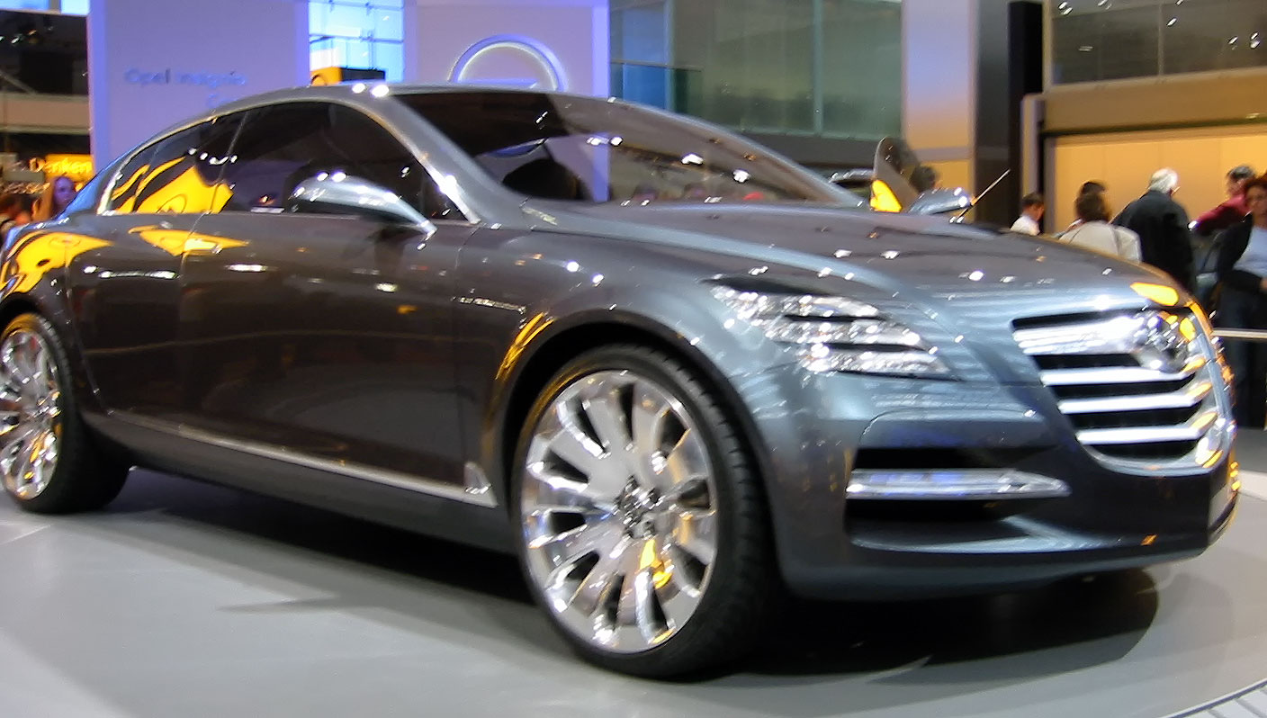 Opel Insignia Concept at the IAA 2003